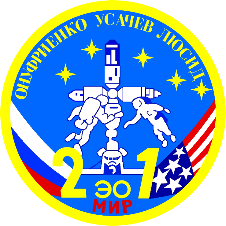 Patch for the Mir EO-21 expedition to the Mir space station in 1996.